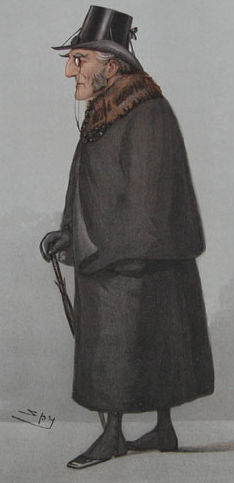 Caricature of George Ridding (1828-1904), Bishop of Southwell. Caption read "Southwell".